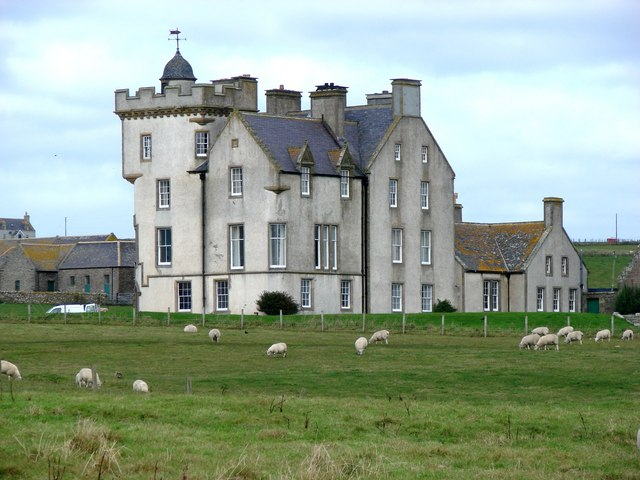 Keiss Castle